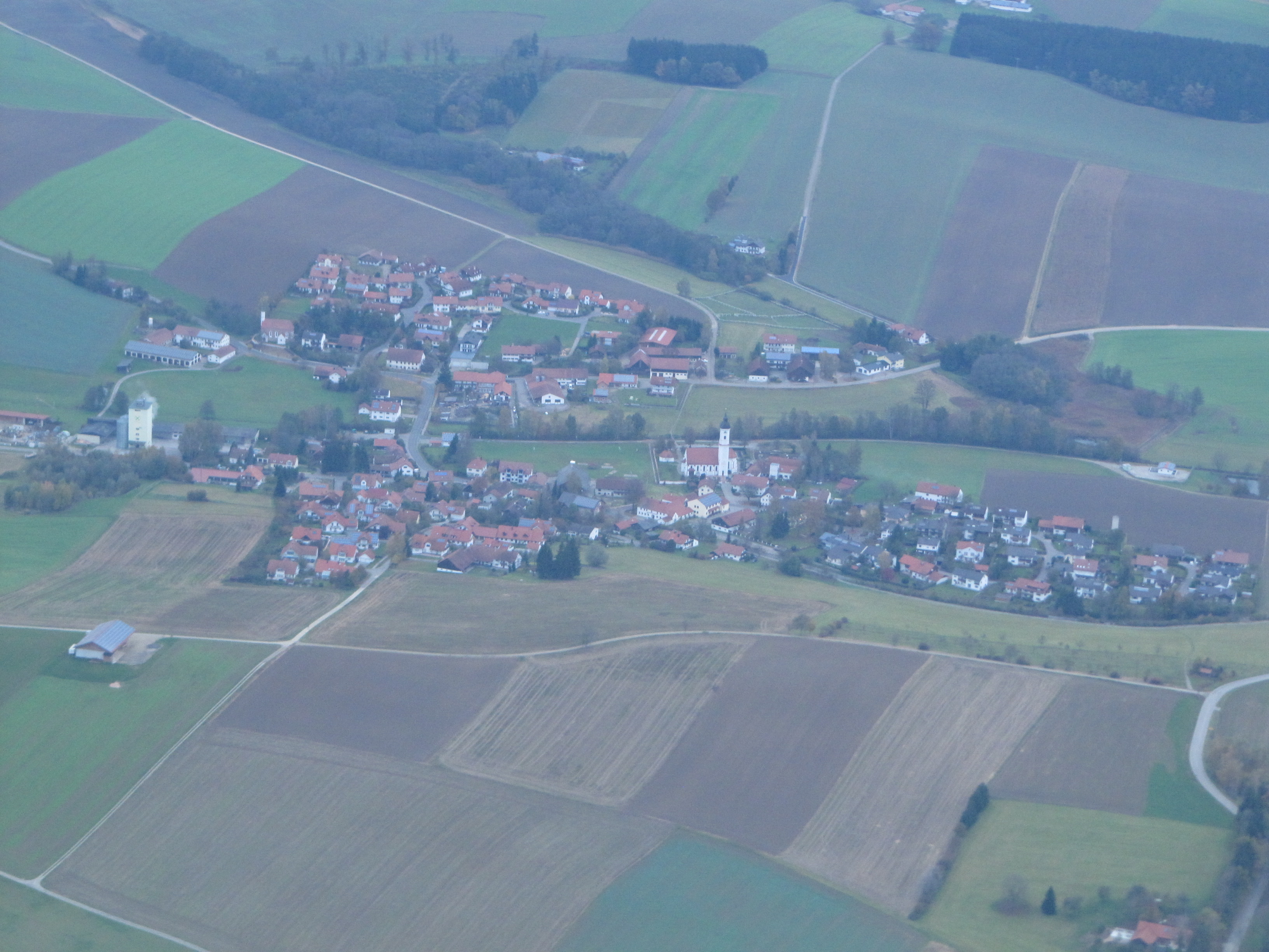 Baierbach